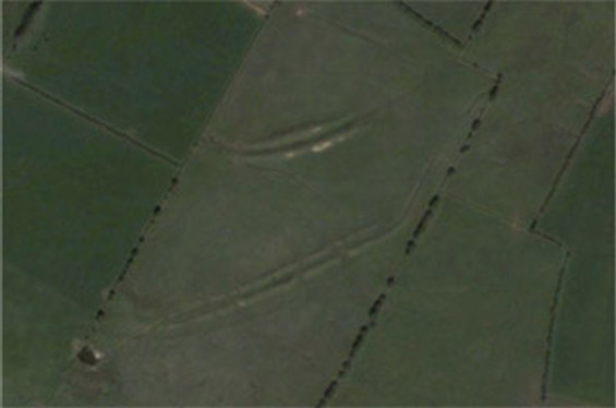 Aerial photo of the Mucklaghs at Rathcroghan